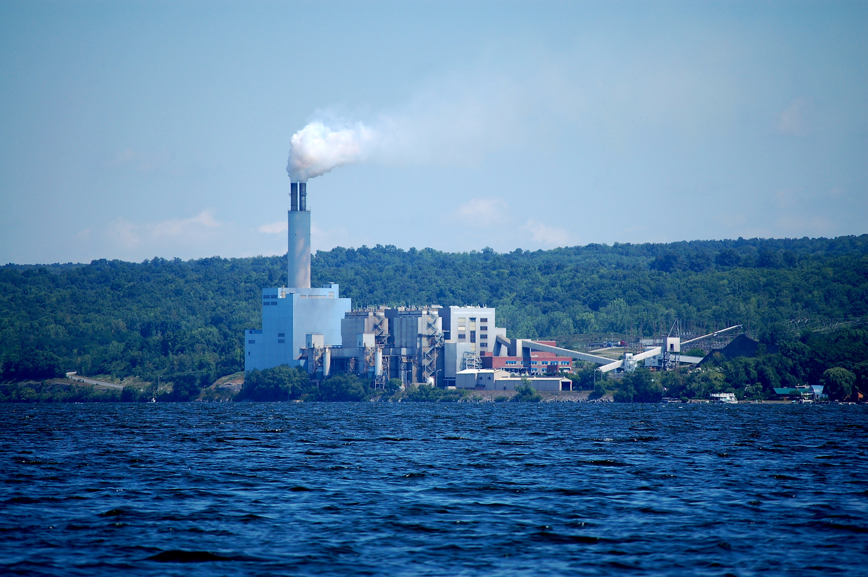 AES Cayuga electrical generating station, east short of Cayuga Lake